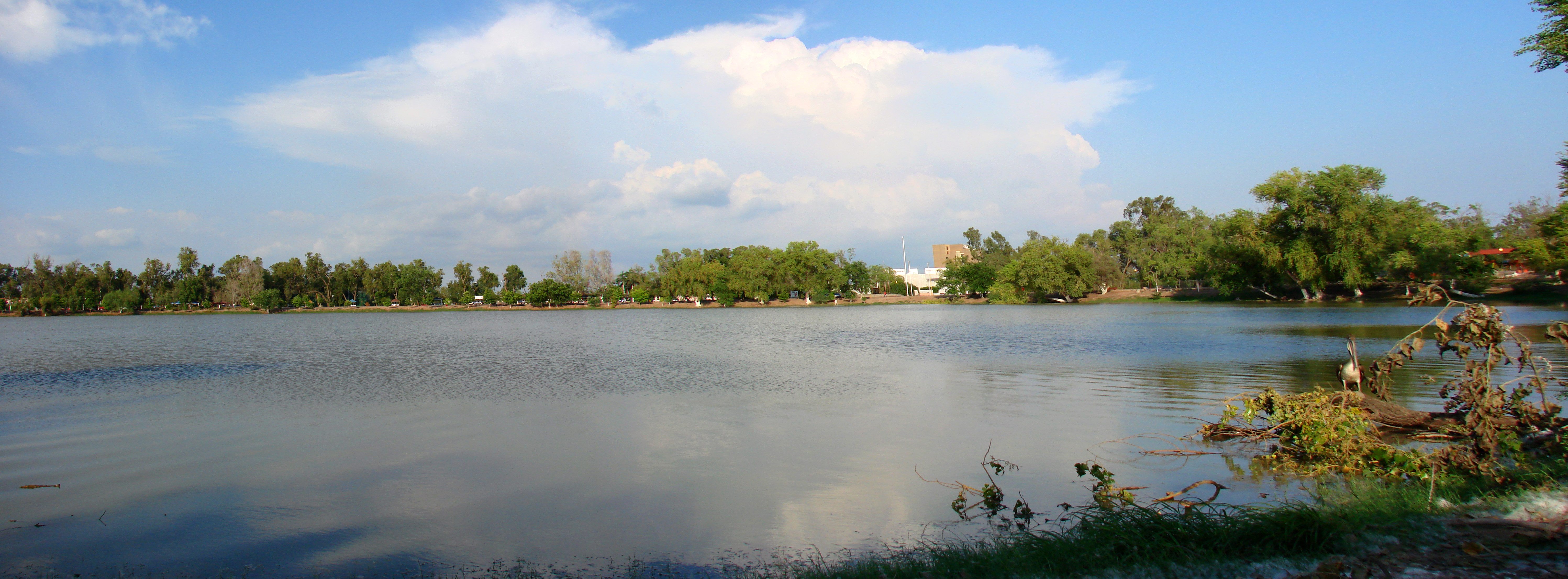 Laguna Nainari.